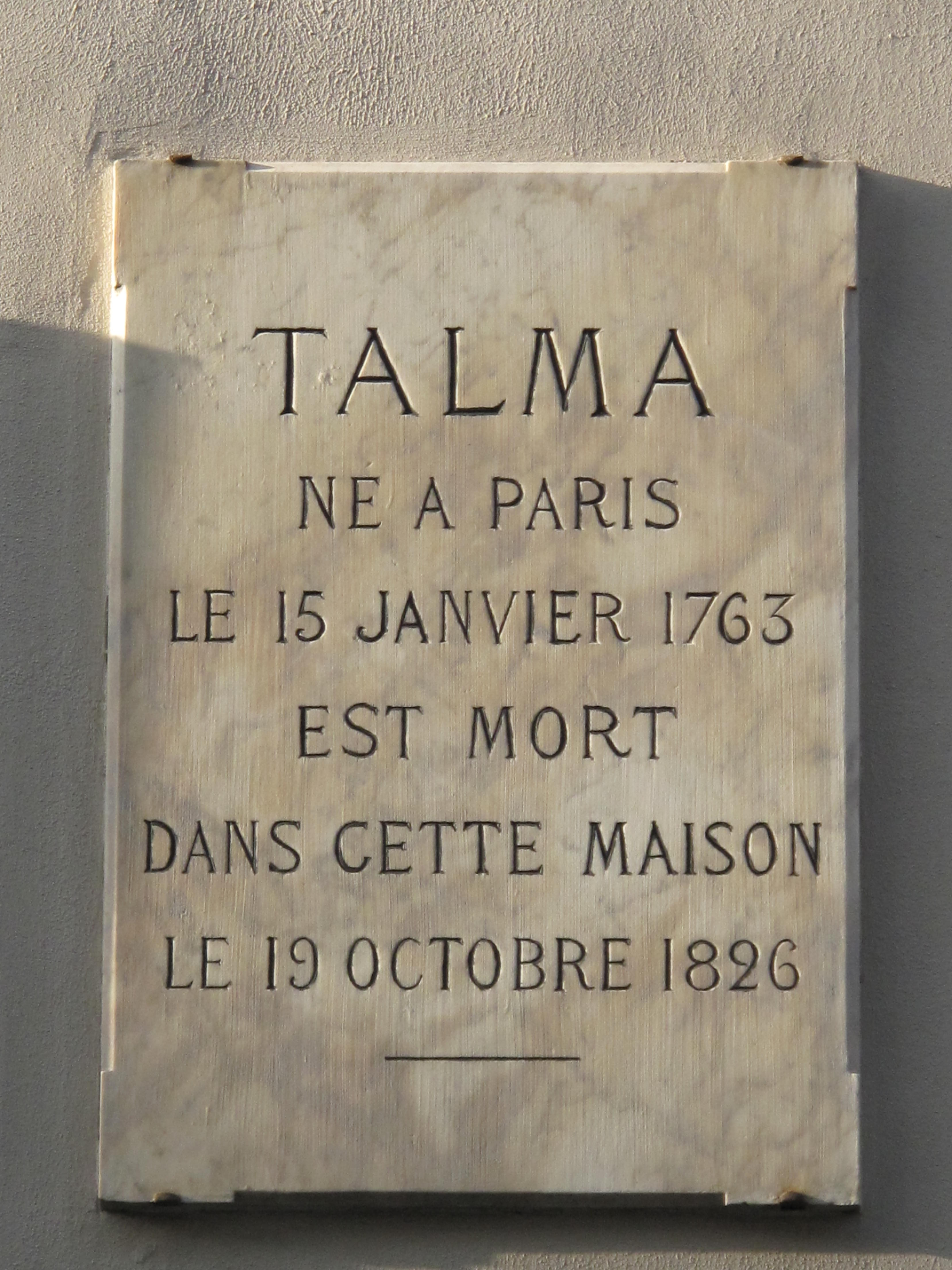 House where died the great actor Talma (1763-1826) : 3bis, rue de la Tour-des-Dames, Paris 9th arr.